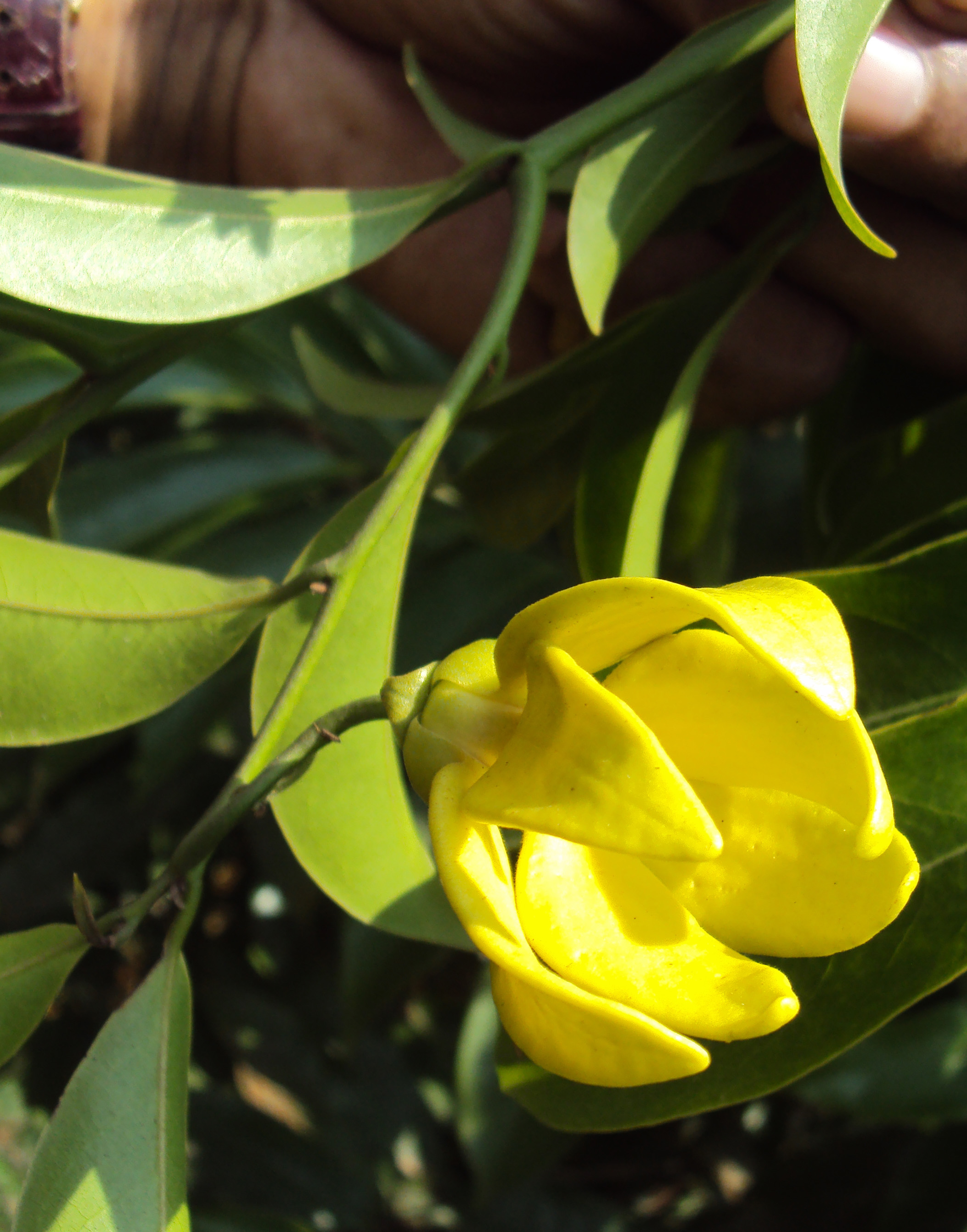 Artabotrys hexapetalus